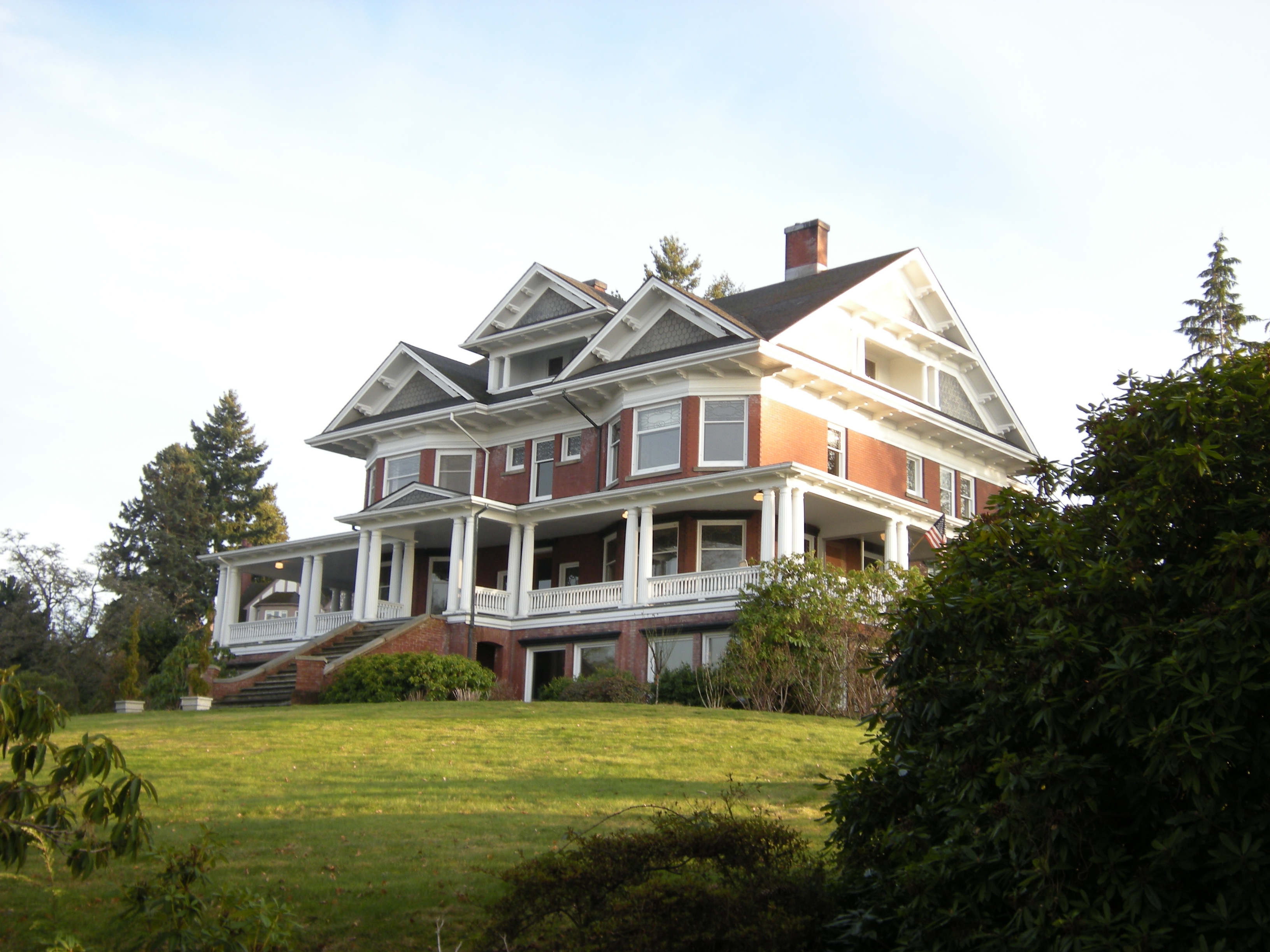 Rucker House (a.k.a. Rucker Mansion), 412 Laurel Avenue, Everett, Washington, USA. The building is on the National Register of Historic Places.